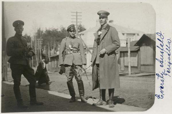 1918 Finnish Civil War. German colonel Eduard Ausfeld in Terijoki.